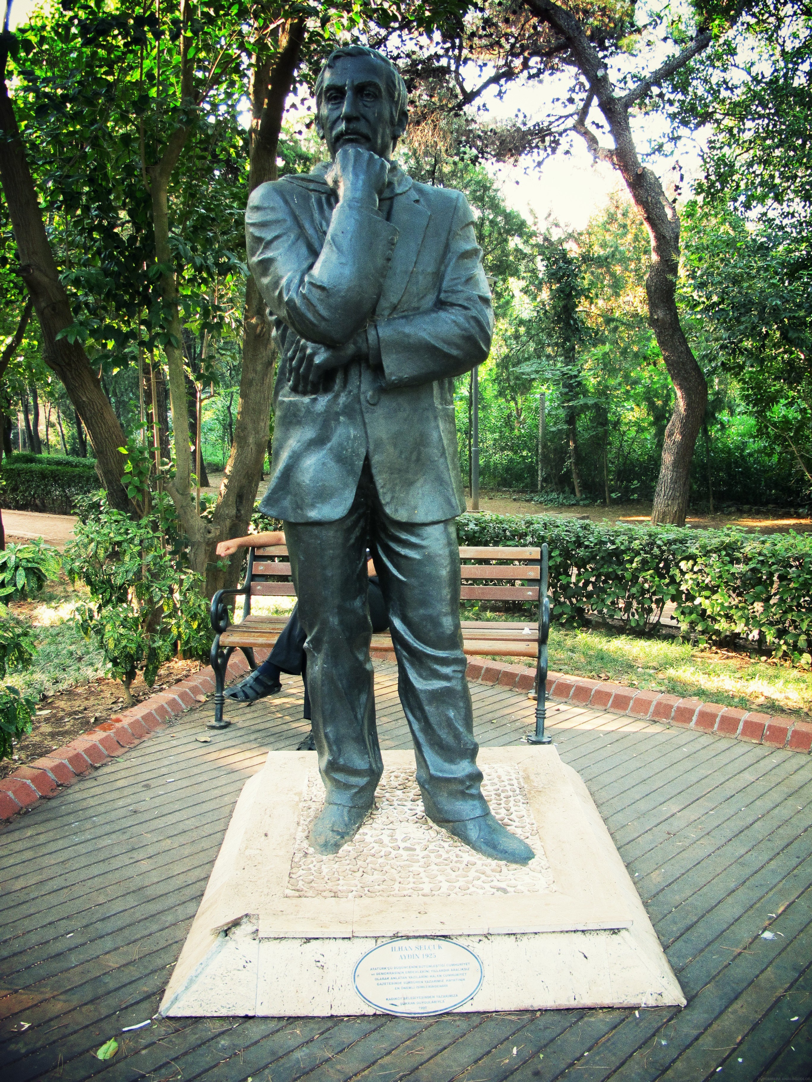 en|1=Statue of İlhan Selçuk in Özgürlük Parkı, Kadıköy